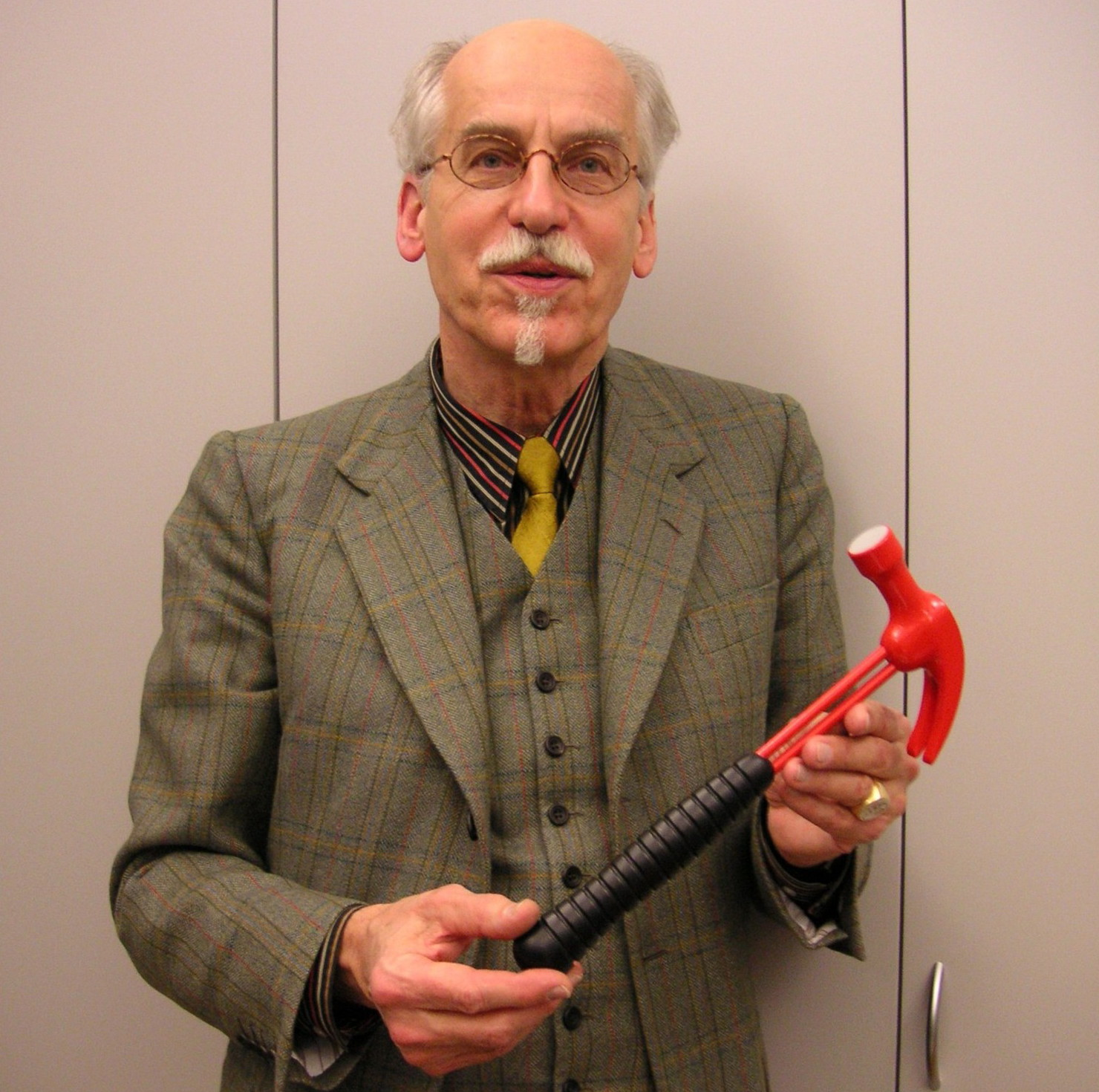 A&E Design, Hans Ehrich med en prototyp